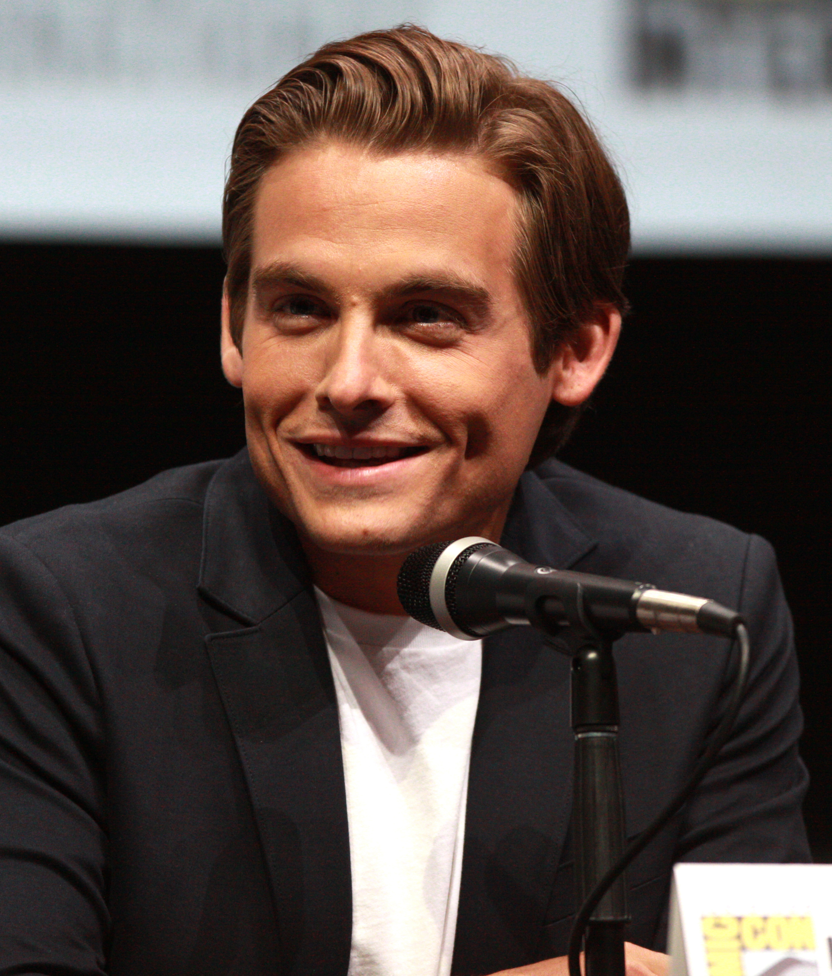 Kevin Zegers at the 2013 San Diego Comic Con International in San Diego, California.